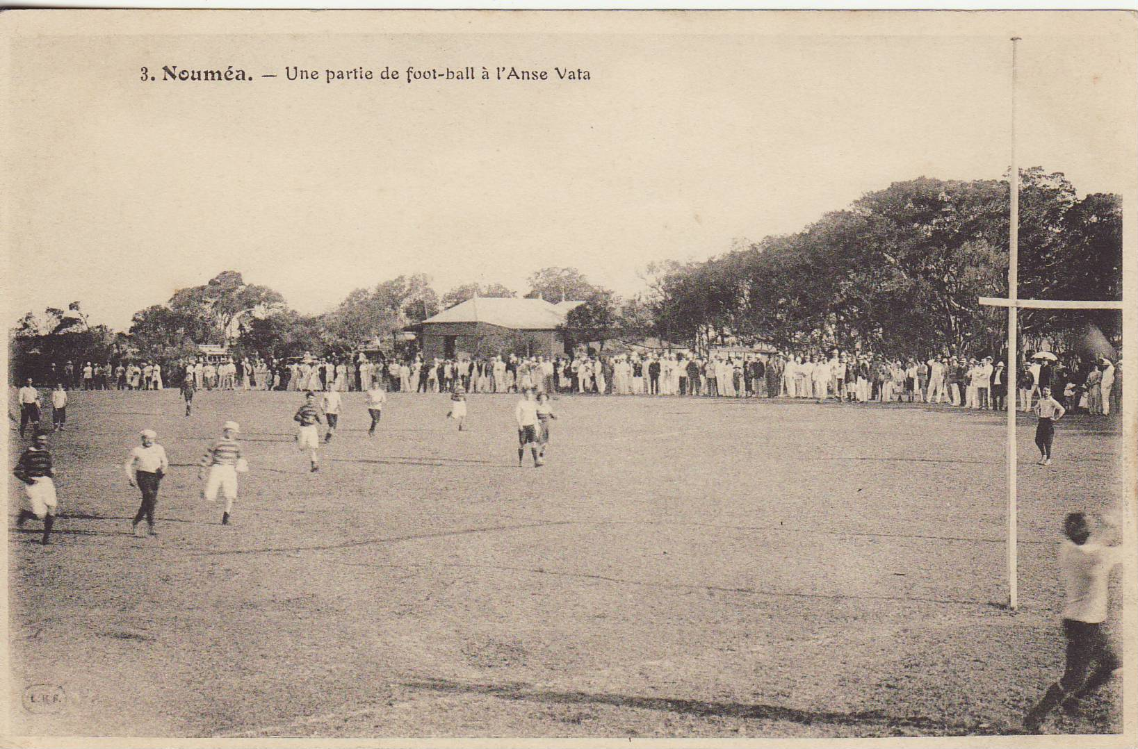 Photo of Numeans players of rugby from the 19th centhury